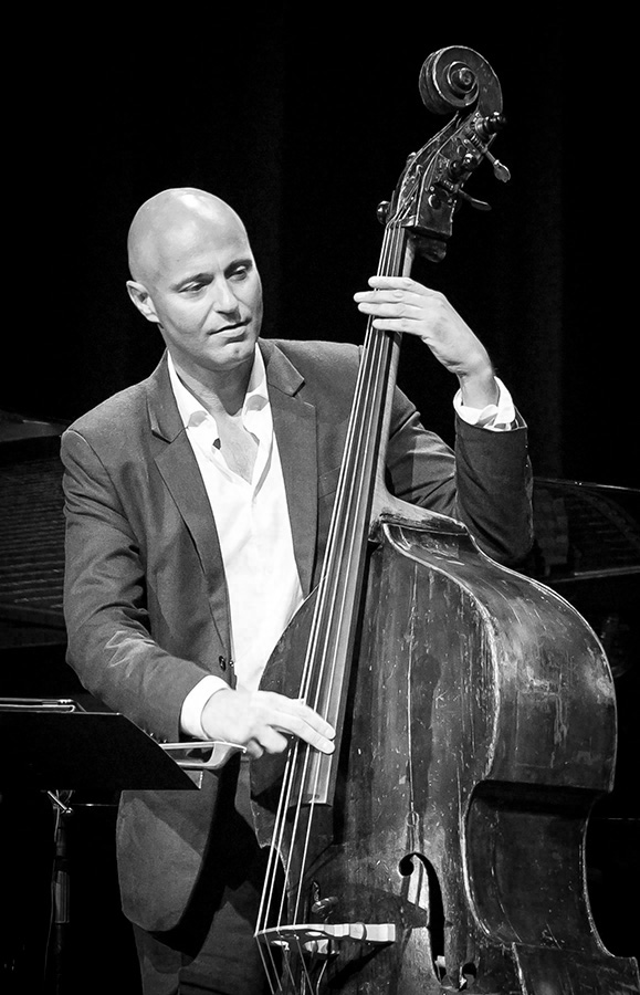 Jens Fossum with Hilde Louise Asbjørnsen at the main stage of Oslo Opera House. The concert was part of the Oslo Jazz Festival in Norway and took place on 15. August 2016. Lineup:Hilde Louise Asbjørnsen (vocal)Marius Haltli (trumpet)Erik Eilertsen (trumpet)Kåre Nymark (trumpet)Jørgen Gjerde (trombone)Kristoffer Kompen (trombone)Håvard Fossum (saxophone)Atle Nymo (saxophone)Lars Frank (saxophone)Anders Aarum (piano)Svein Erik Martinsen (guitar)Jens Fossum (double bass)Hermund Nygård (drums)